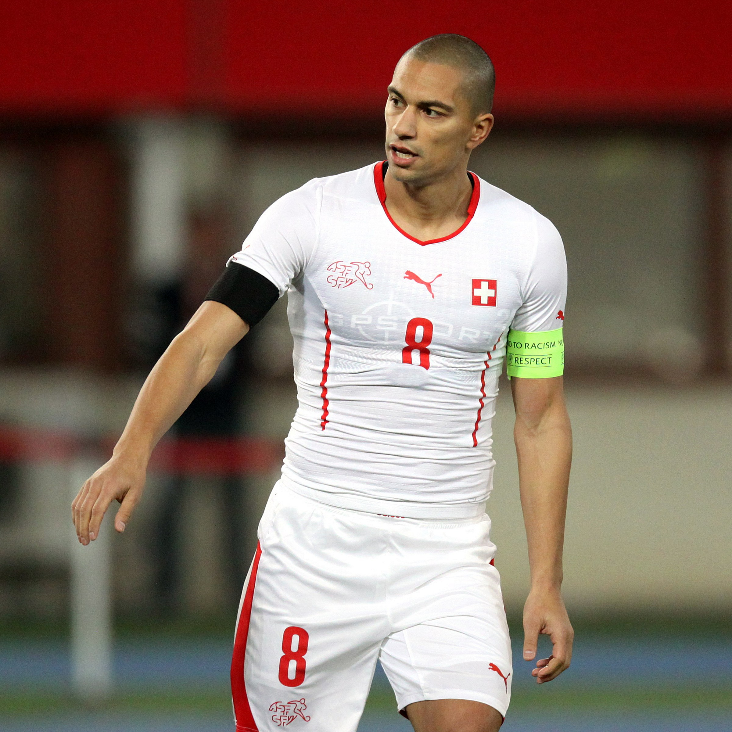 Friendly match – Austria (red shirts) vs. Switzerland (white shirts) 1-2 (1-2) – 2015-11-17 in Vienna, Ernst-Happel-Stadion – The photo shows Gökhan Inler.